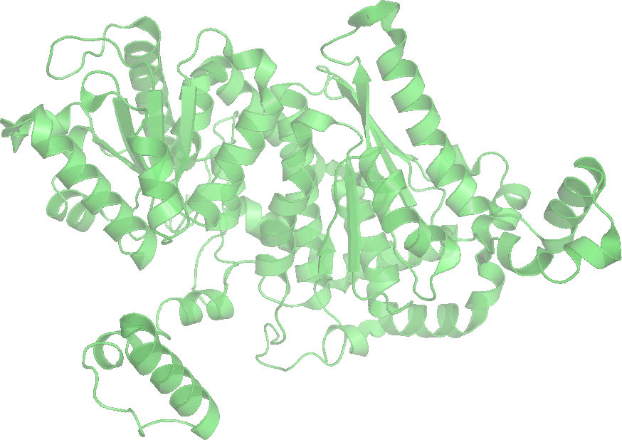 By Richard Wheeler (Zephyris) 2006. For the metabolic pathways wikiproject.